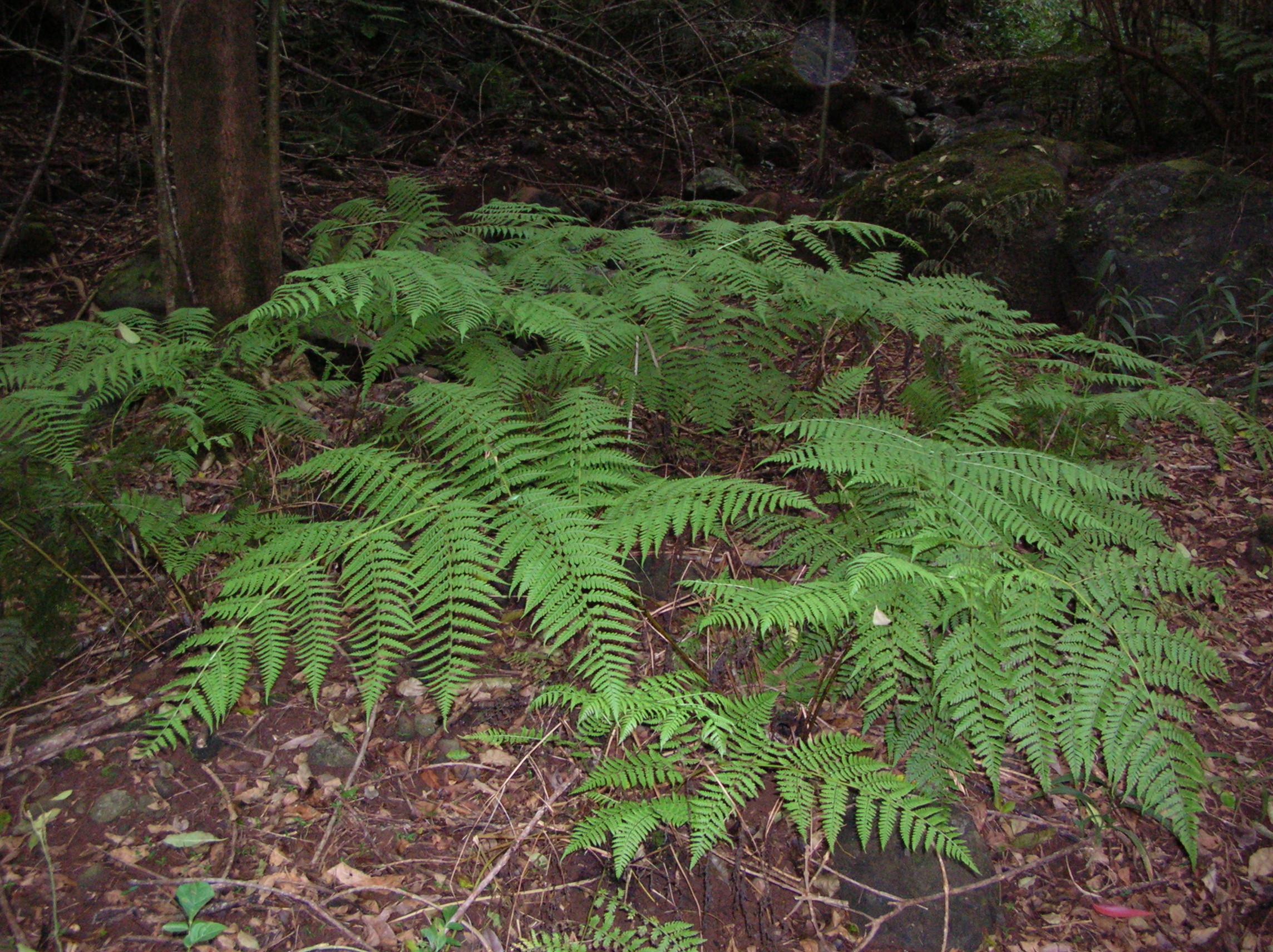 Diplazium sandwichianum (habit). Location: Maui, Makawao Forest Reserve